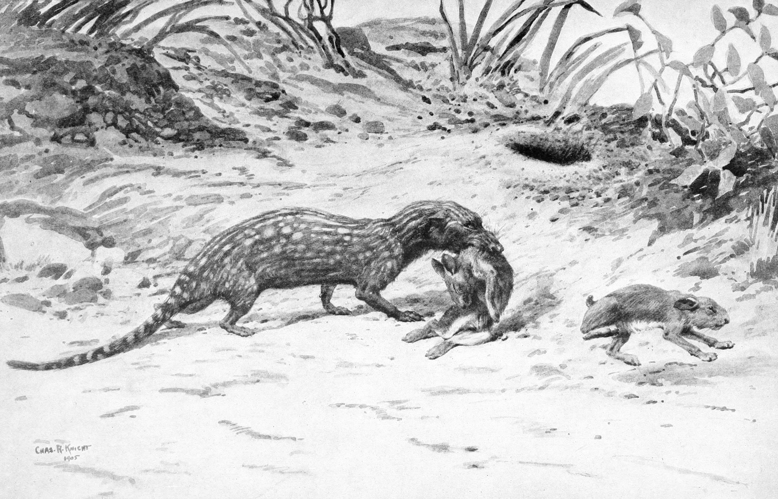 Life restoration of Cladosictis lustratus and Pachyrukhos moyani from W.B. Scott's A History of Land Mammals in the Western Hemisphere. New York: The Macmillan Company.